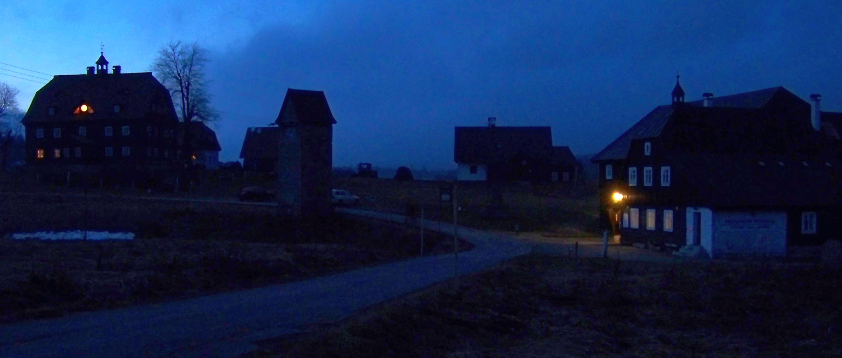 Kořenov-Jizerka, Jablonec nad Nisou District, Liberec Region, the Czech Republic.